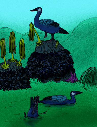 My reconstruction of the extinct Chendytes lawi of Pleistocene California (c) Stanton F. Fink